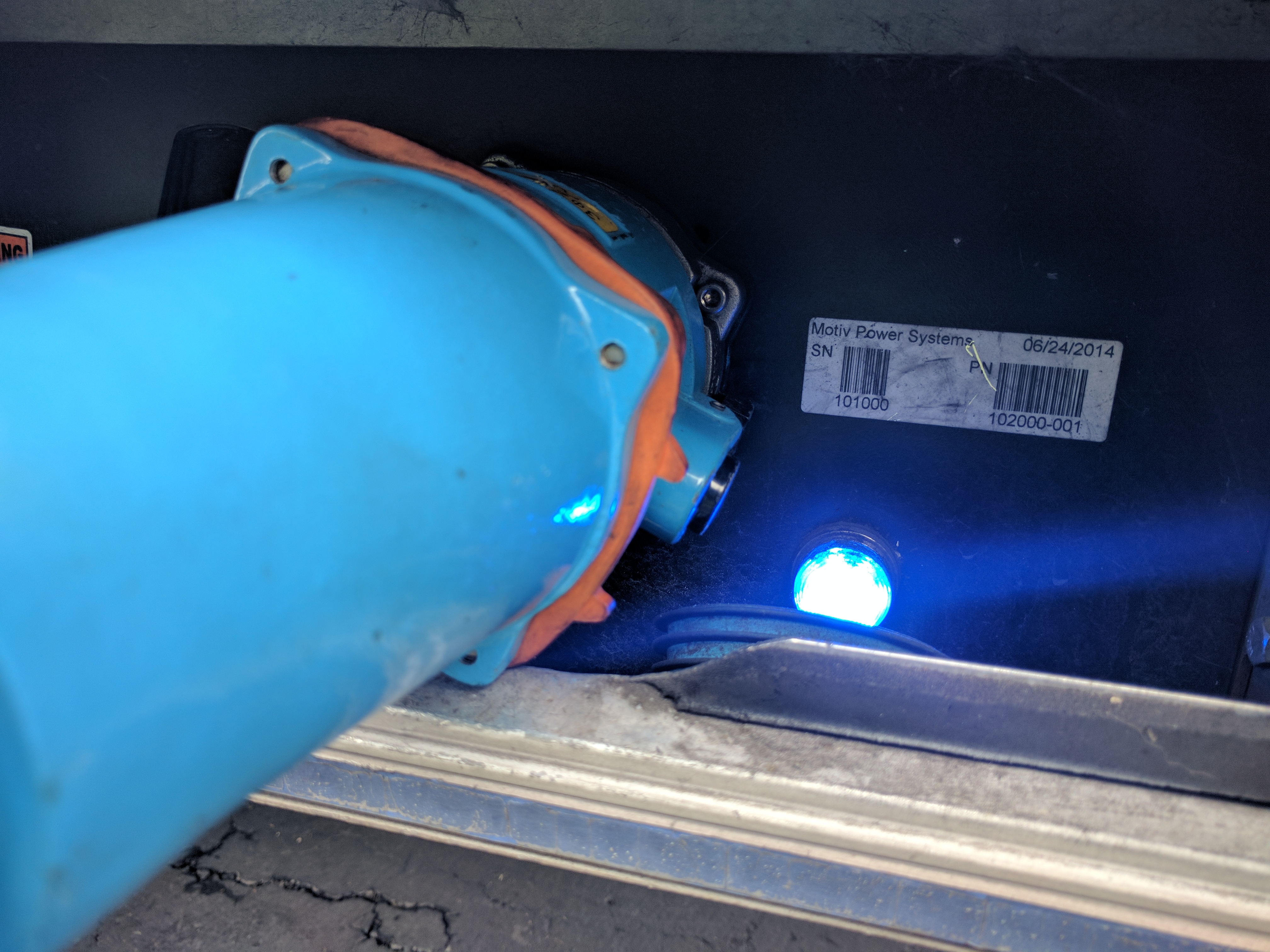 An electric shuttle bus with a Motiv Power Systems drivetrain charging.